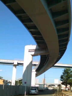 Yono Junction on the Metropolitan Expressway Route S2, view towards the Saitama Minuma Interchange